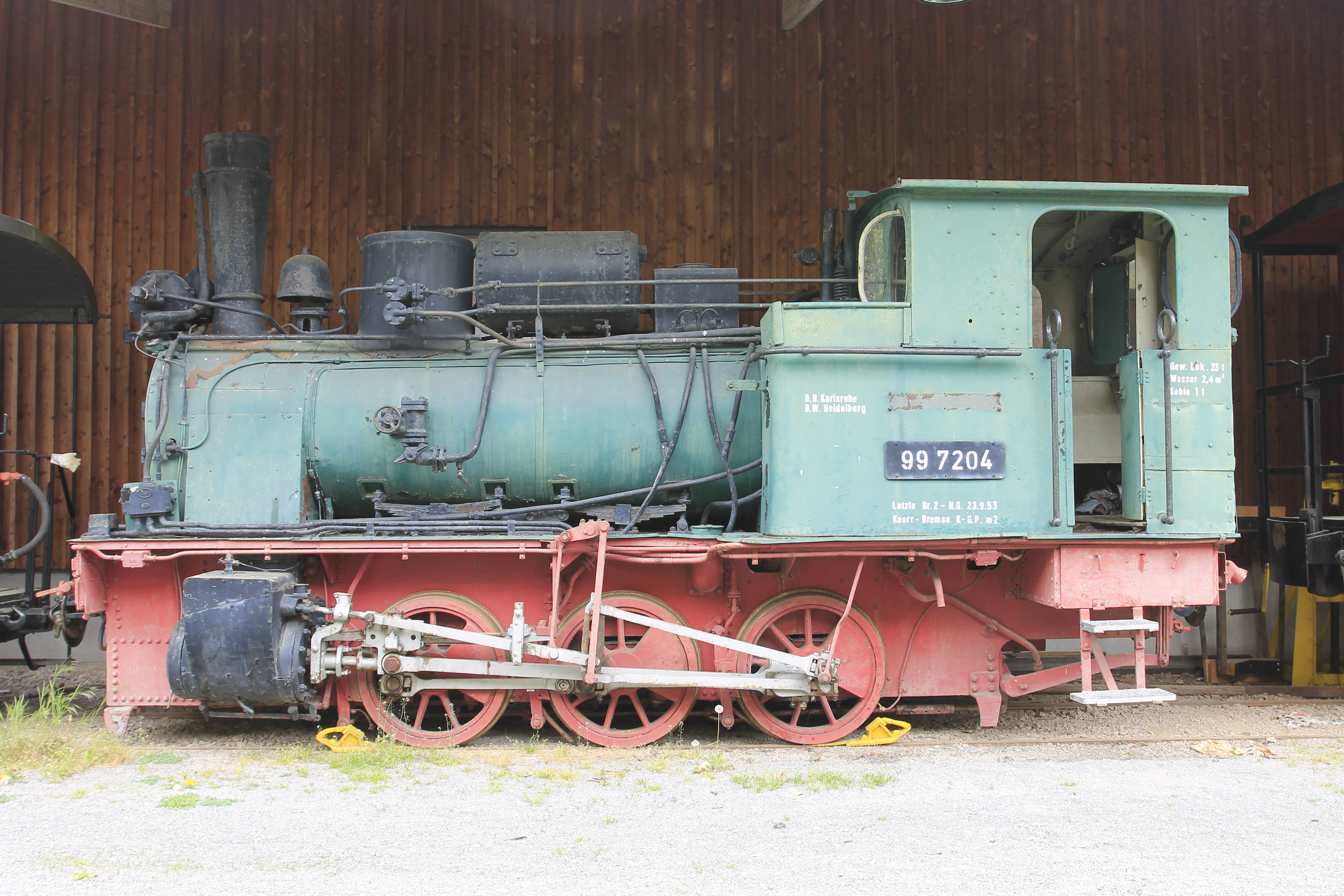 steam train type 99.720 taken at the railway station museum Märkische Museums-Eisenbahn in Herscheid-Hüinghausen (Germany)